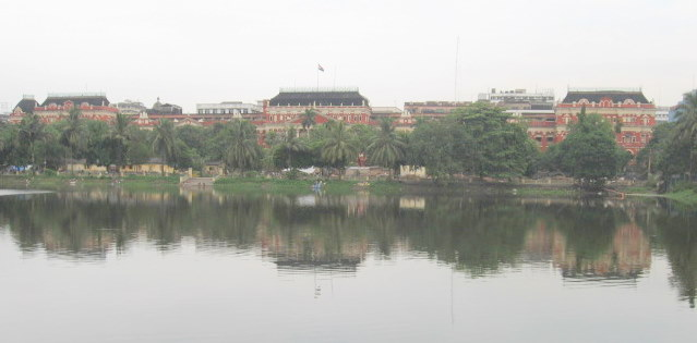 Writers' Building from across Lal Dighi in B.B.D.Bagh, Calcutta